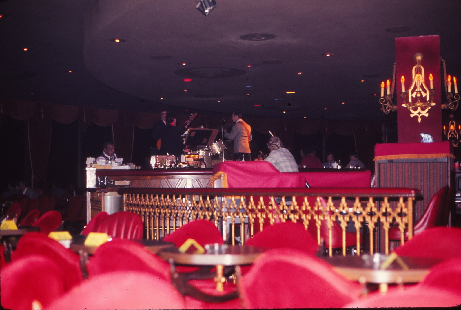 "Top of the Mart" bar, atop the International Trade Mart building, New Orleans, 1973